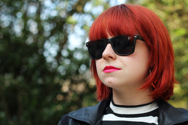 Black Wayfarer Sunglasses with Pink Lipstick and Red Hair Model